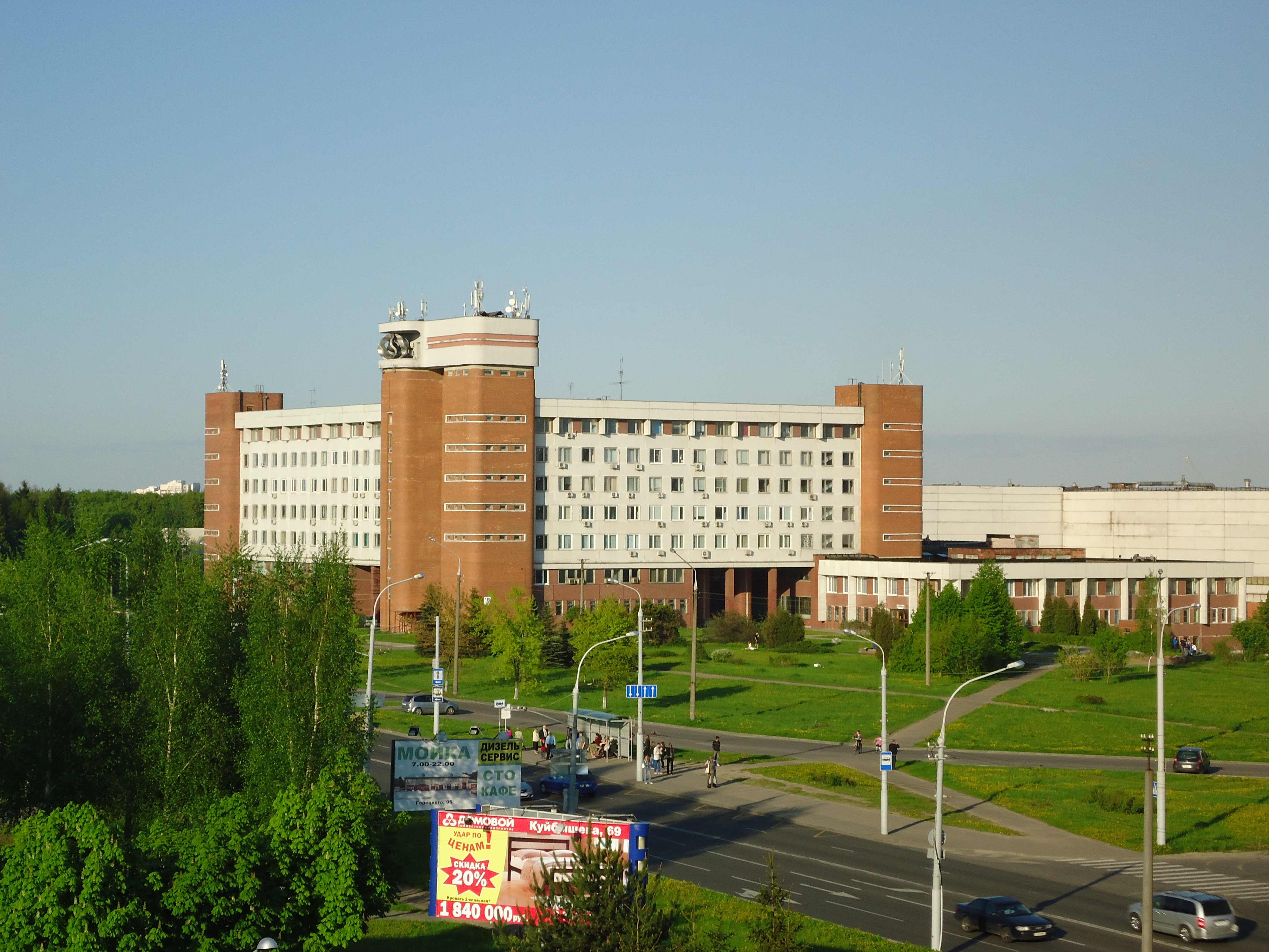 NPO Centr in Minsk, 2012